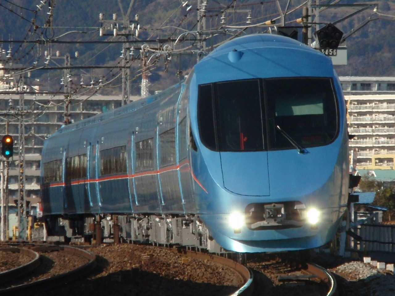 Odakyu 60000 series EMU set 60554 on a test run